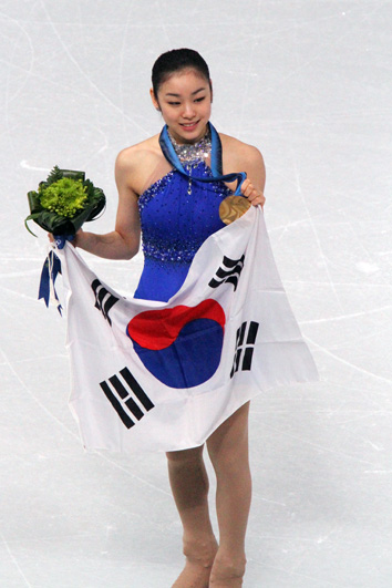 Kim Yu-Na(KOR) at the 2010 Winter Olympic figure skating medal ceremony.